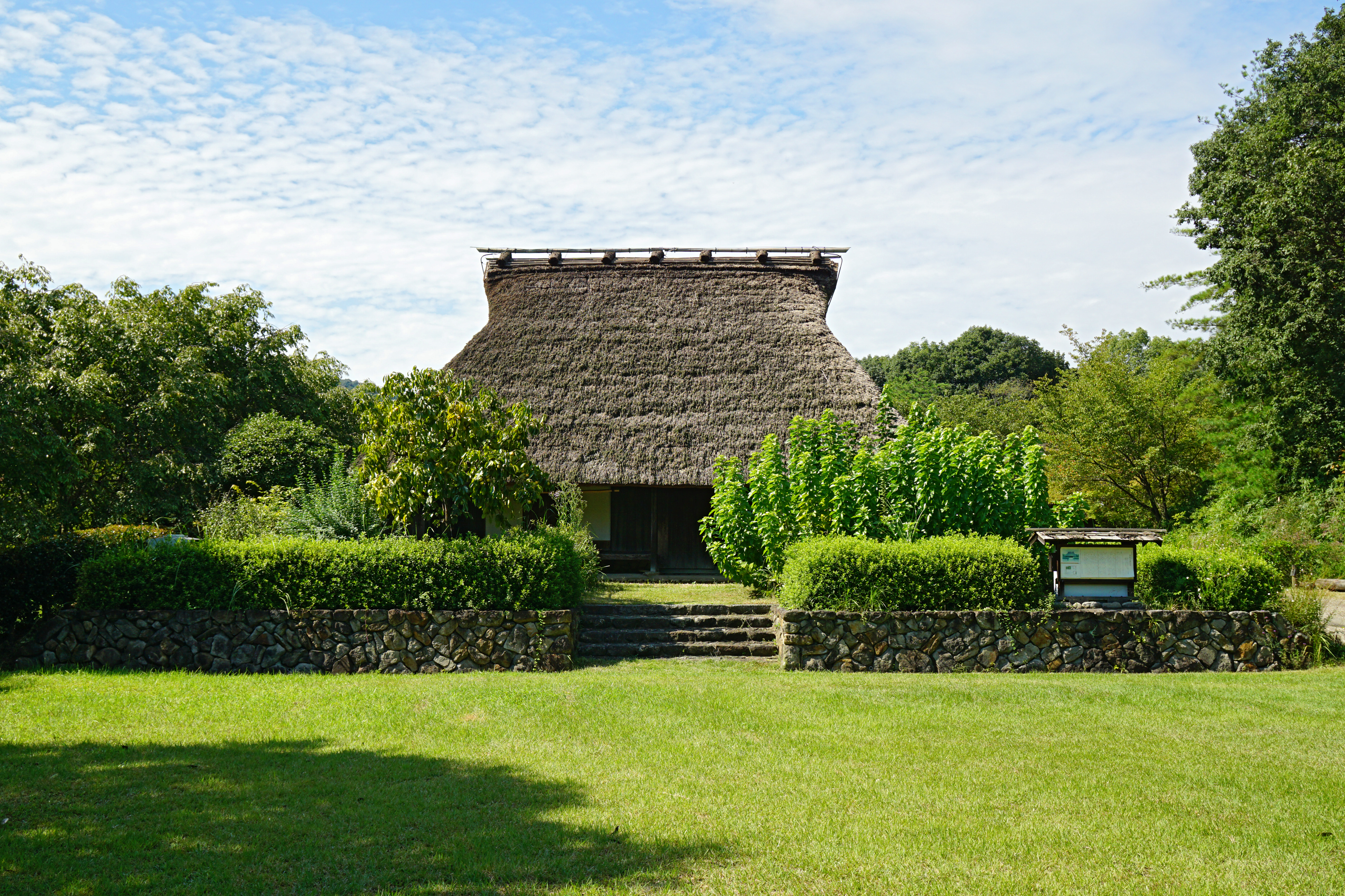 The Matsui House at Nara Prefectural Yamato Folk Park in Yamatokōriyama Nara prefecture, Japan.